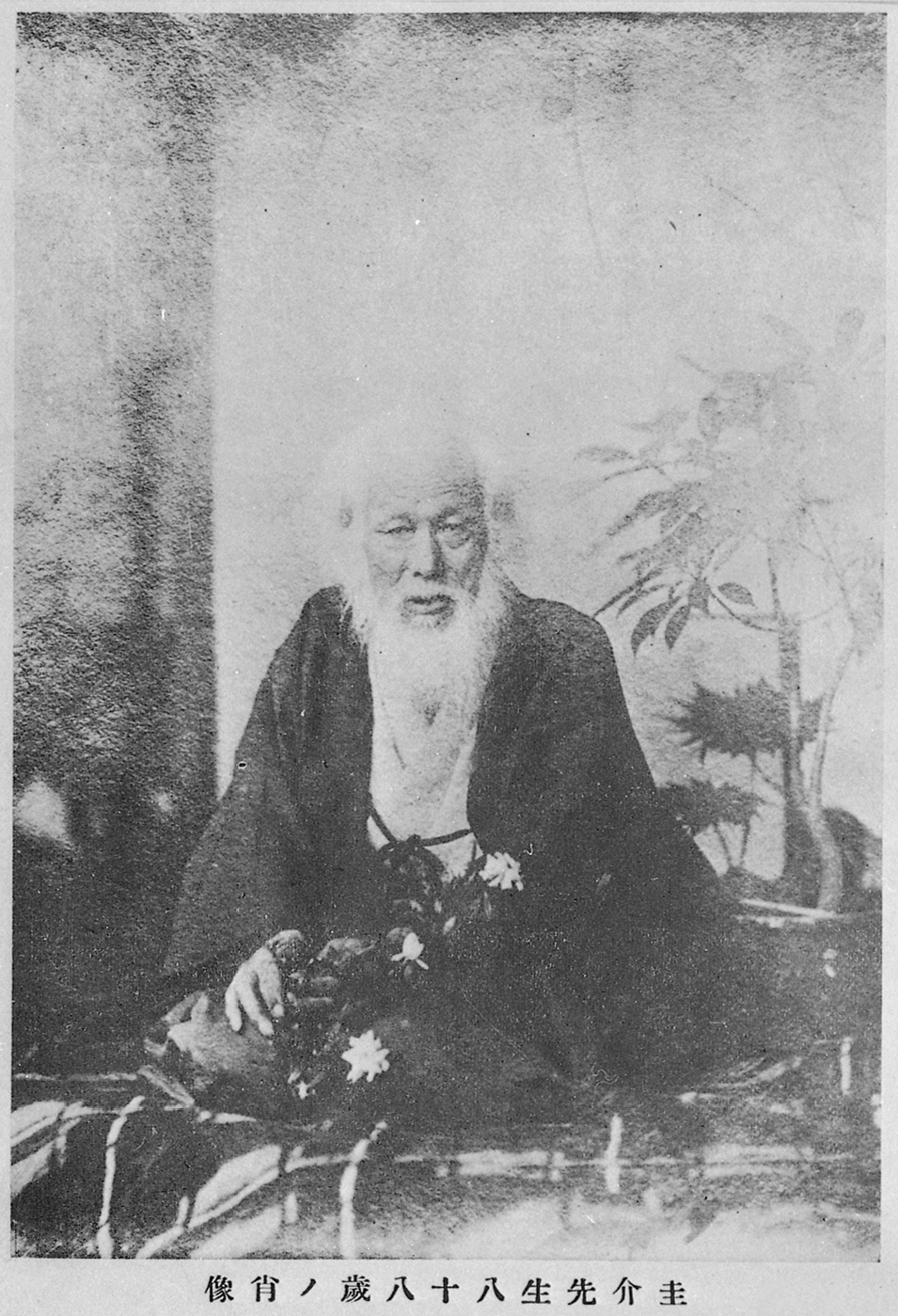 Portrait of Ito Keisuke (伊藤圭介, 1803 – 1901)